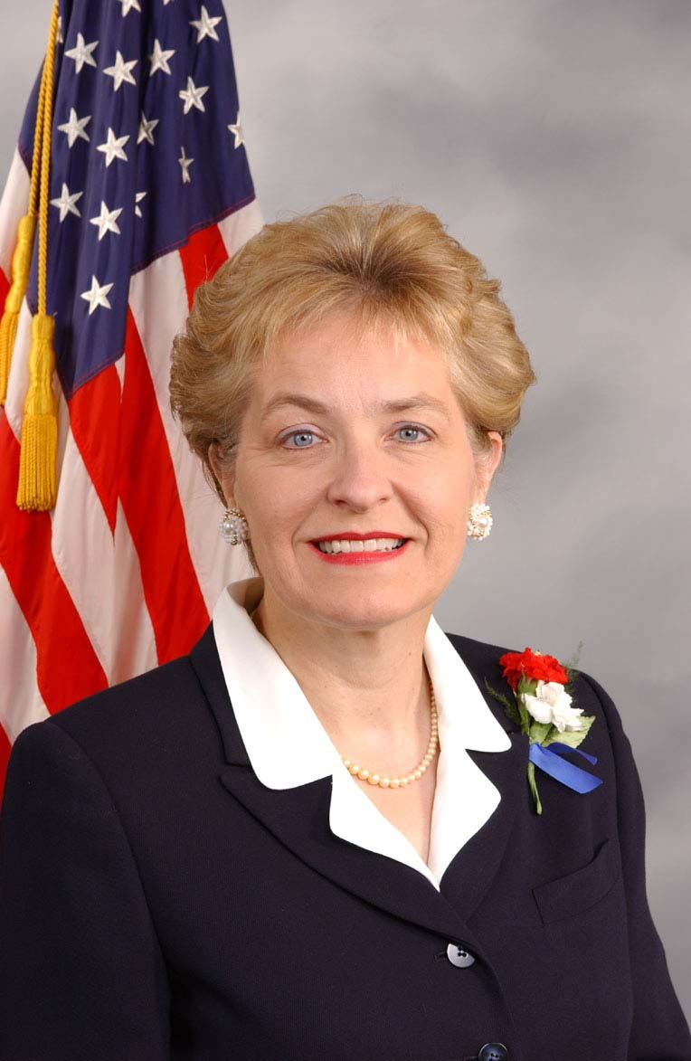 Marcy Kaptur, U.S. Congresswoman (D-Ohio, 1983-present)